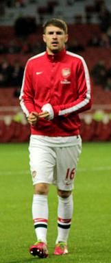 Aaron Ramsey warming up for Arsenal ahead of their match against Hull City on 4 December 2013.